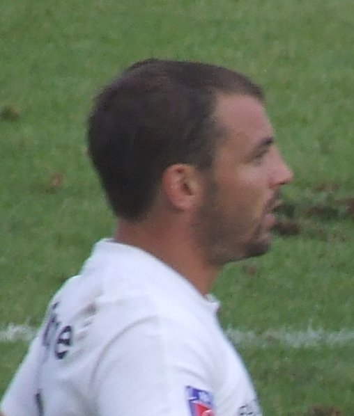 Rugby player Jean-Baptiste Élissalde (scrum half of the national French side)